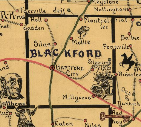 Blackford County portion of Indiana railway mail service map